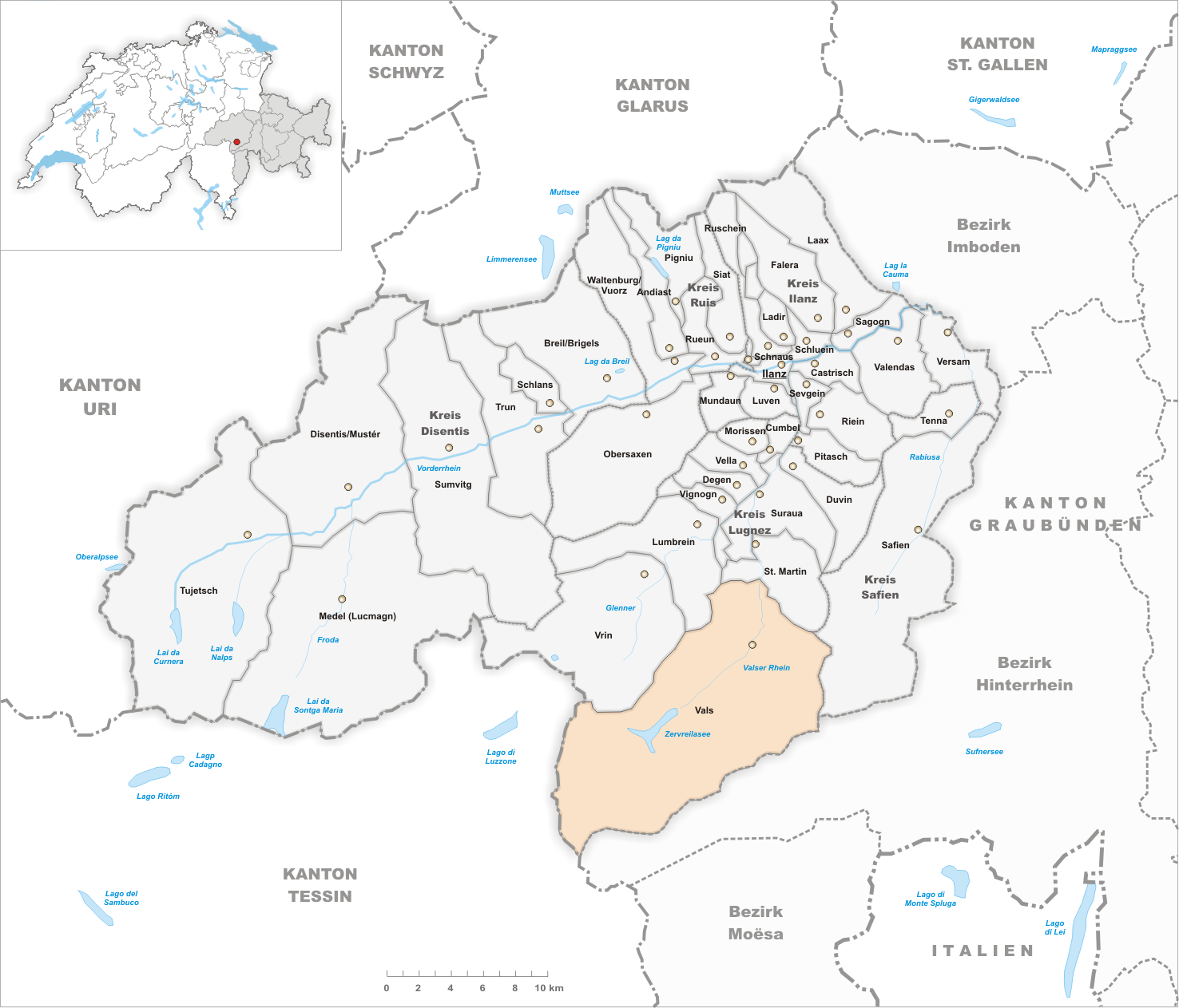 Municipality Vals